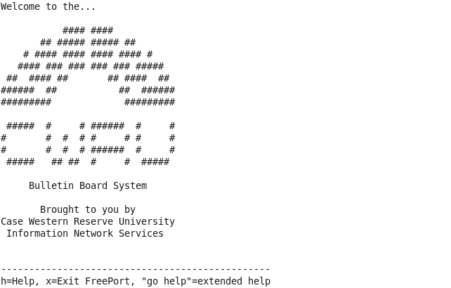 Screenshot of the welcome banner of FreePort Software version 2.3 for the Case Western Reserve University bulletin board system.